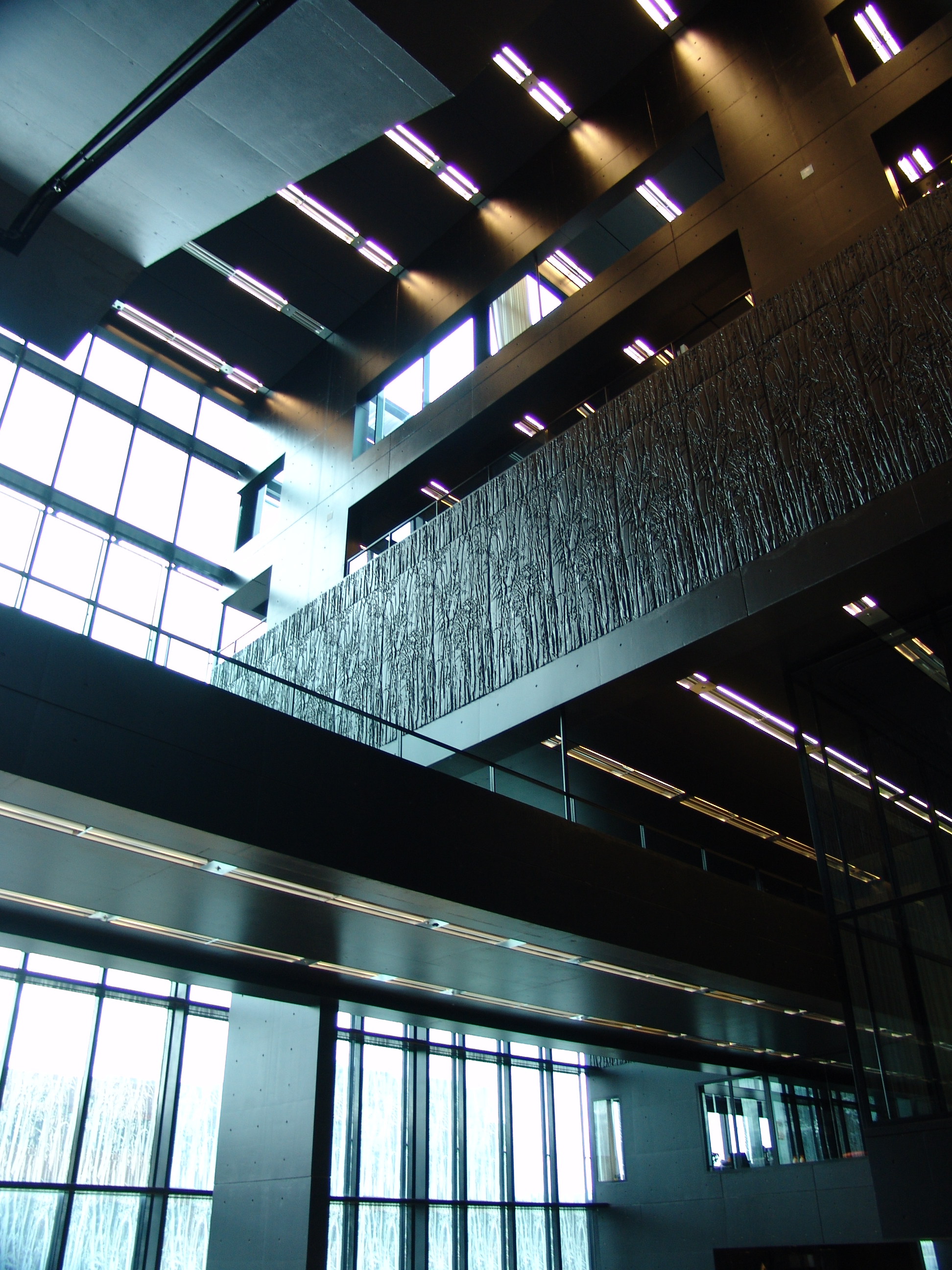 Interior of university library Utrecht at de Uithof